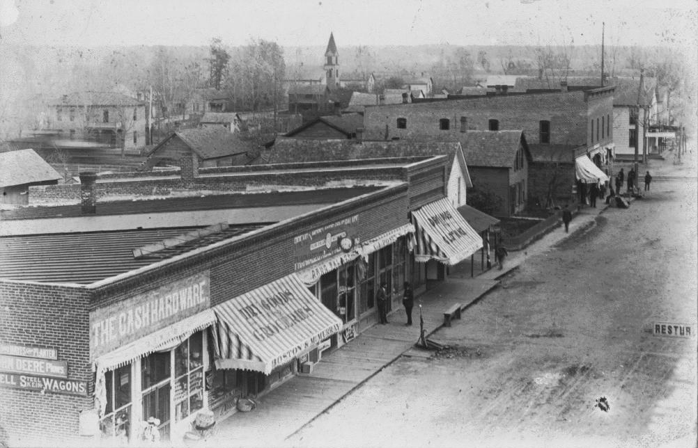 Looking east on Main Street, Medaryville, Indiana. The picture was taken from the upper part of a large two-story 1880s brick building which stood until the 1980s at the southwest corner of Main and National. The foreground is the "brick block" of business buildings on the north side of Main, almost all of which remain today.